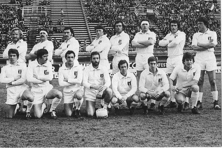 The lineup of the Italy national rugby union team vs France, 1974–75 FIRA Trophy, Stadio Flaminio in Rome. France won 16-9